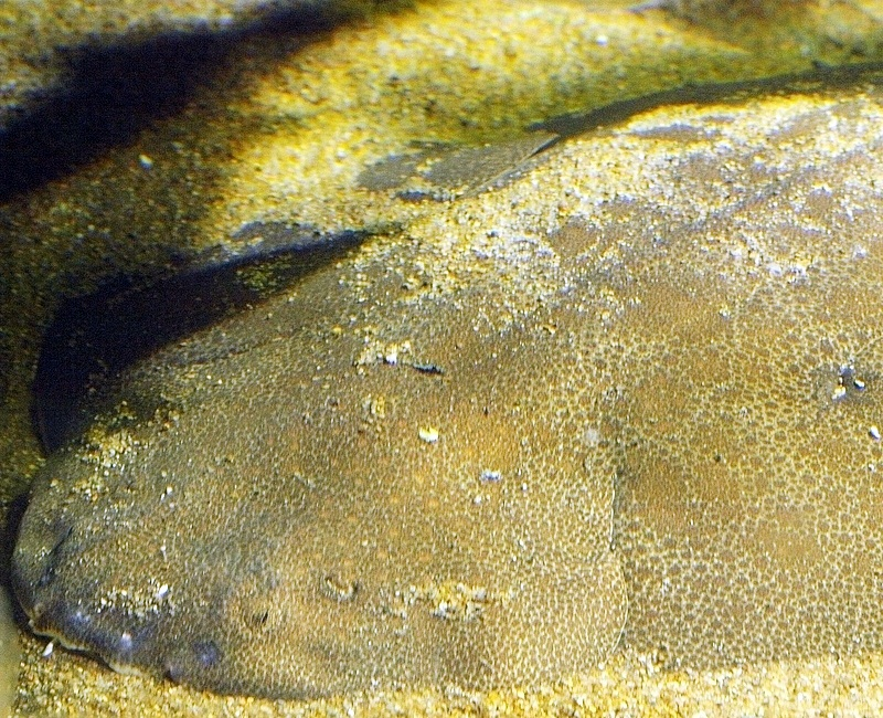 Japanese angelshark (Squatina japonica)